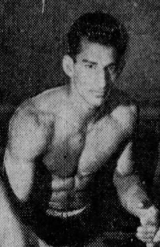 Nick Mohammed, circa 1947